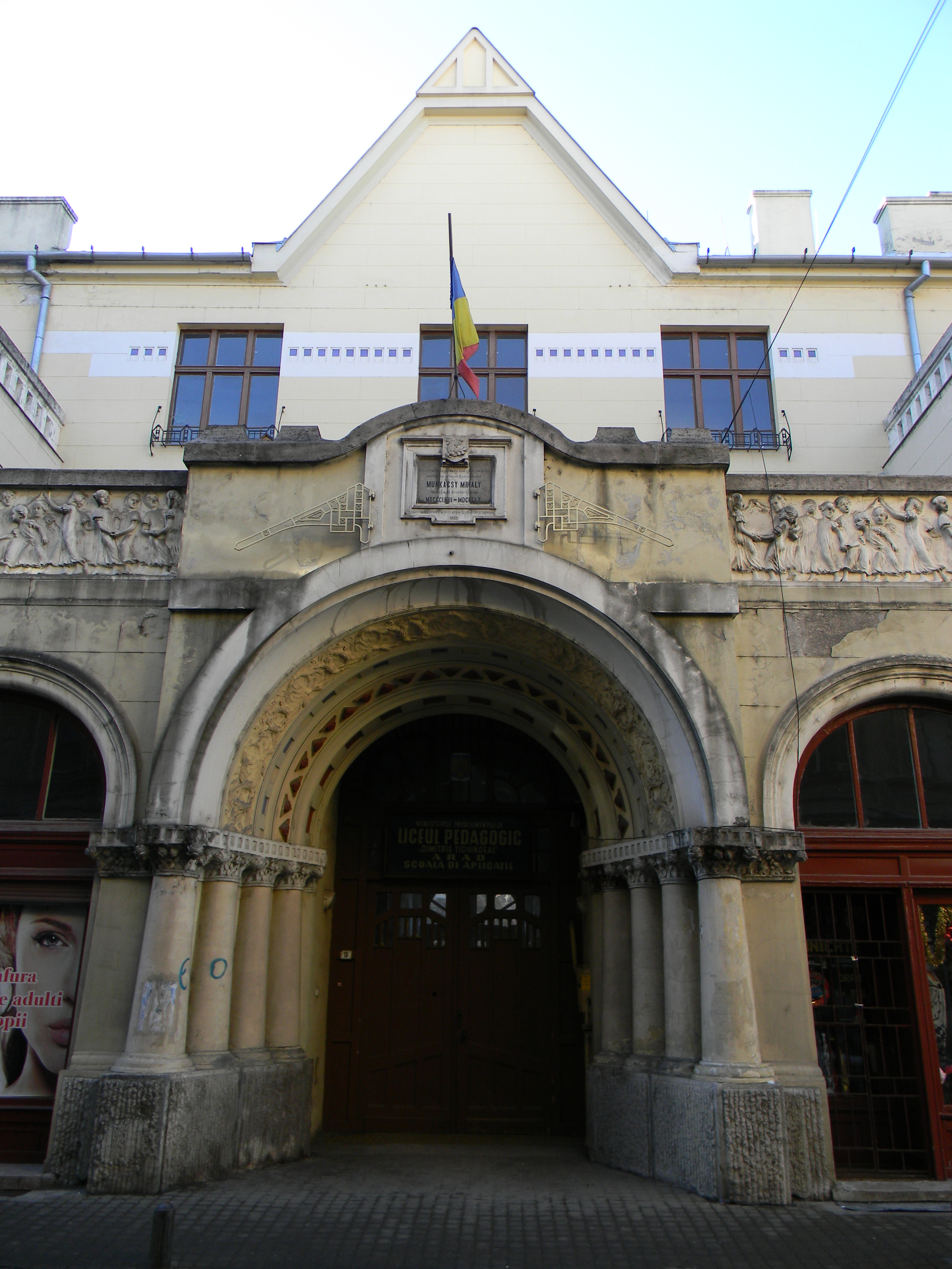 Girls School, Arad, Romania